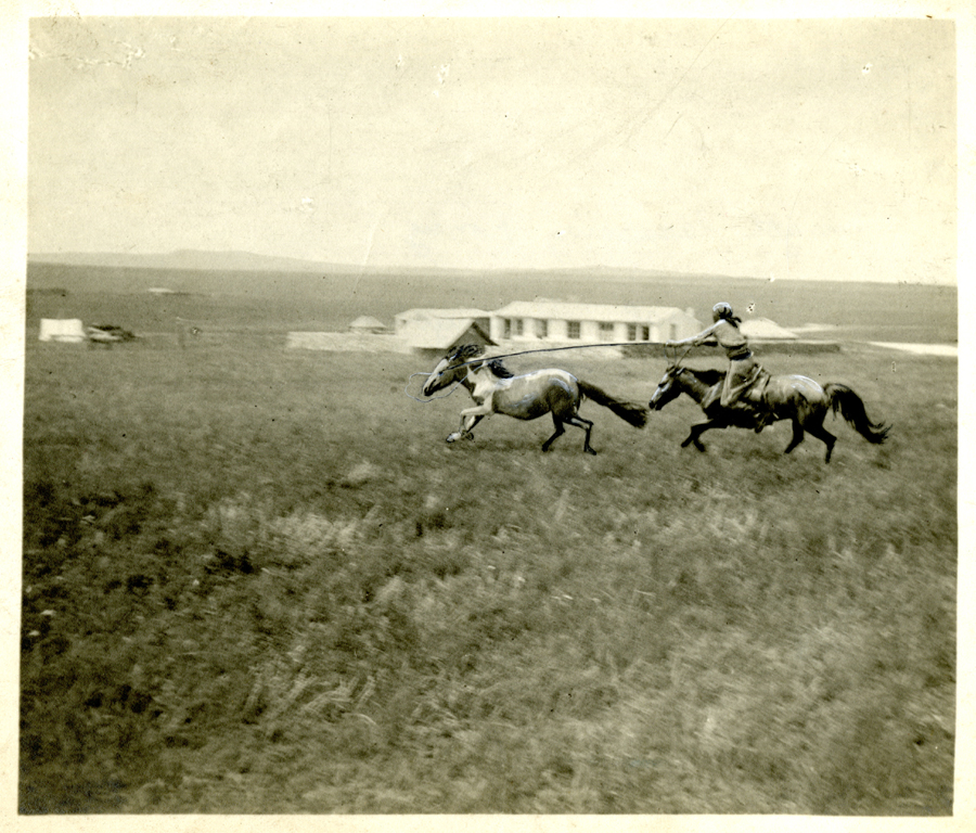 Creator: Sowerby, Arthur de Carle 1885-1954 Subject: China National Aviation Corporation Type: Black-and-white photographs Topic: Mongols Trick roping Horses Local number: SIA RU007263 [SIA2008-2909] Cite as: RU 7263 - Arthur de Carle Sowerby Papers, 1904-1954 and undated, Smithsonian Institution Archives Place: Mongolia Persistent URL:Link to data base record Repository:Smithsonian Institution Archives View more collections from the Smithsonian Institution.